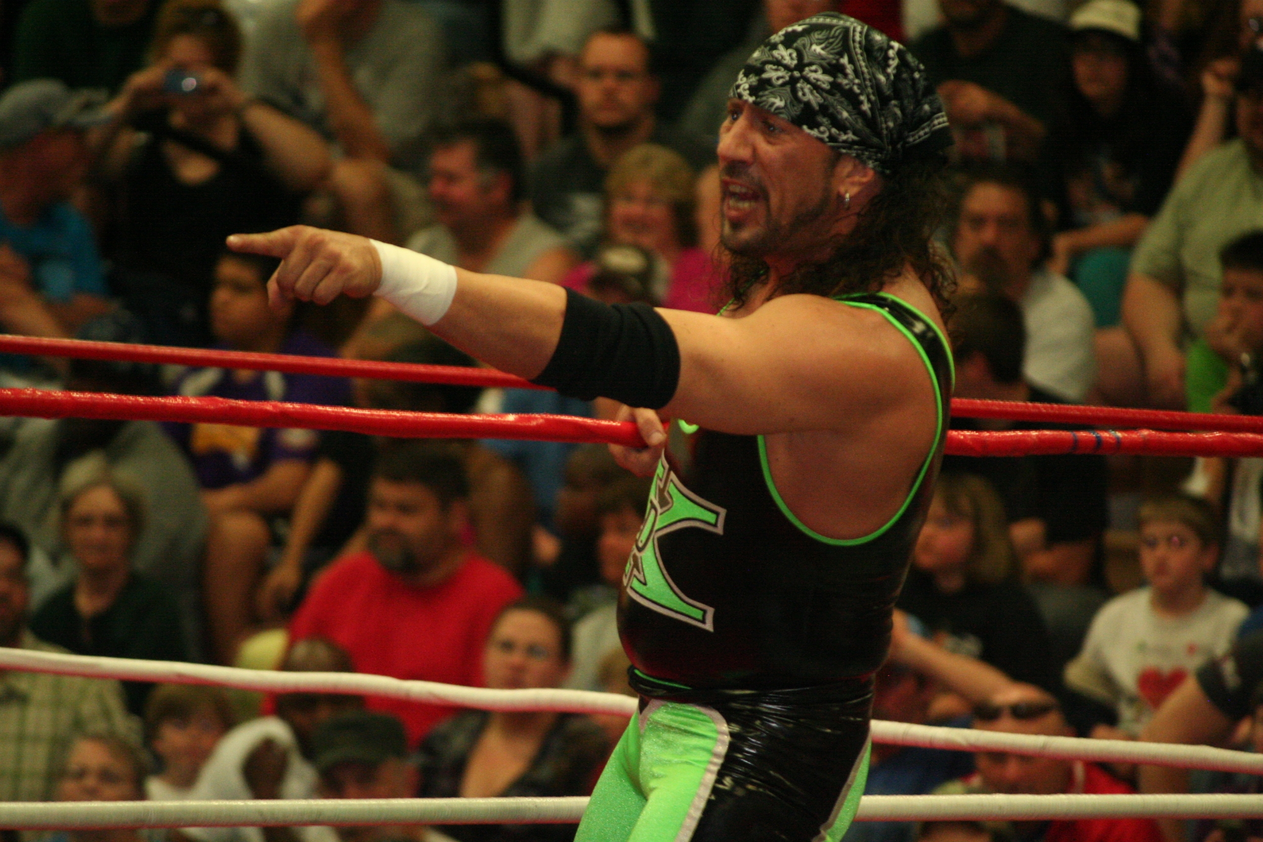 wrestler x pac